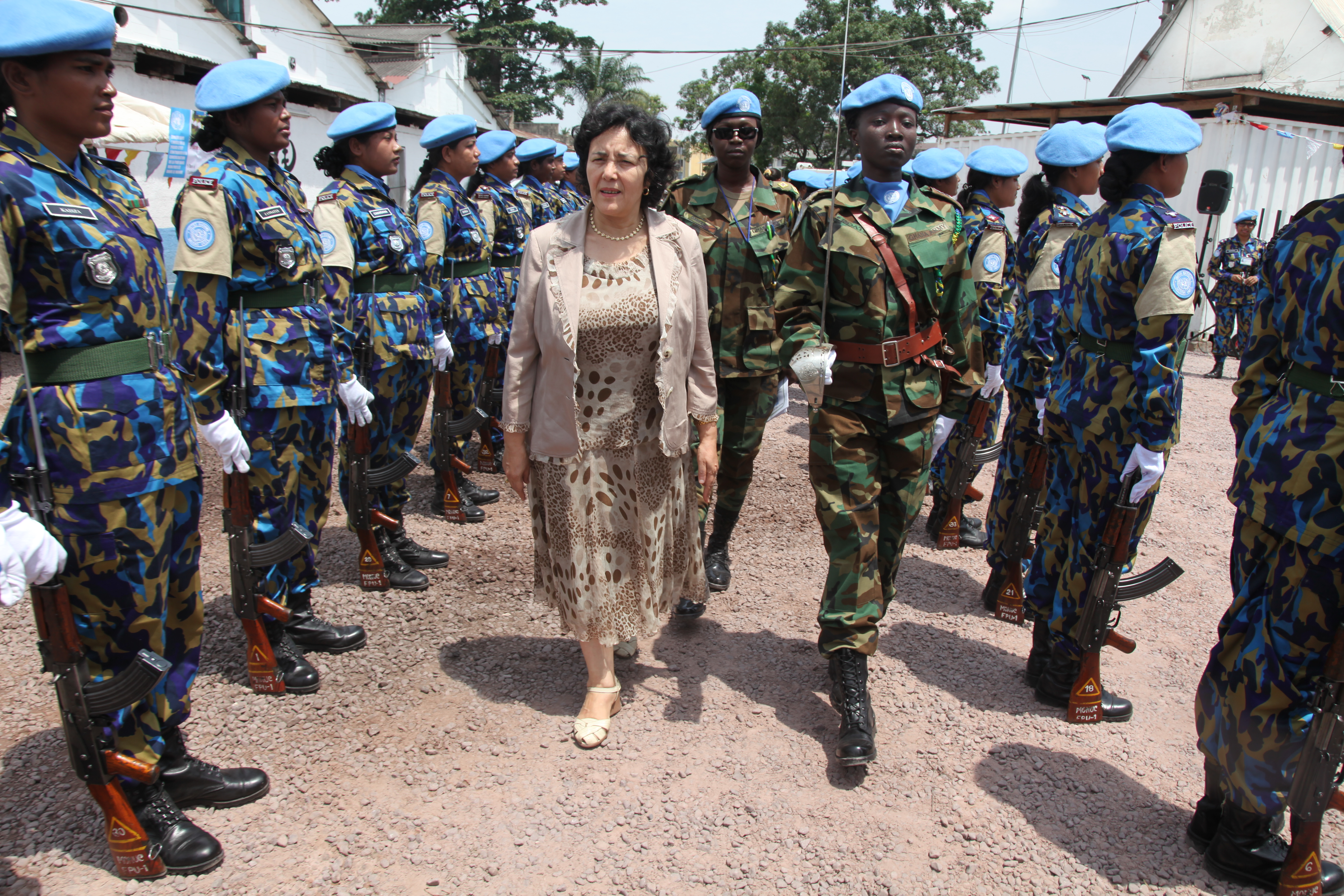 2012-03-09-Kinshasa Ghanbatt Celebration on the International women Day. MONUSCO/ Myriam Asmani